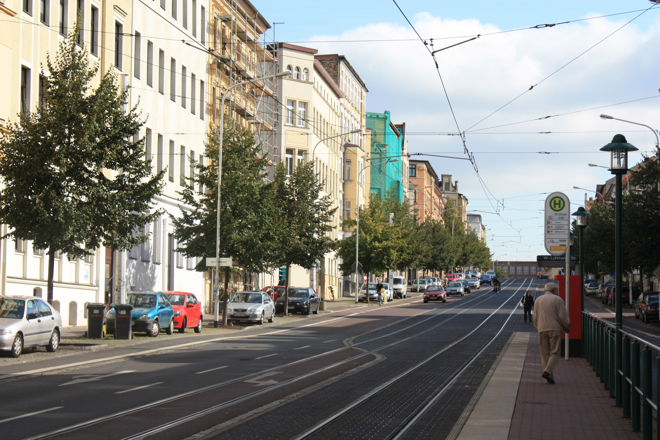 Halle (Saale), the Ludwig-Wucherer-Straße